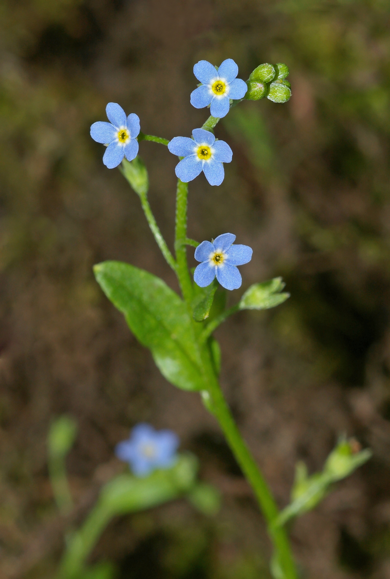 Flowering plant of Myosotis scorpioides (Boraginaceae).